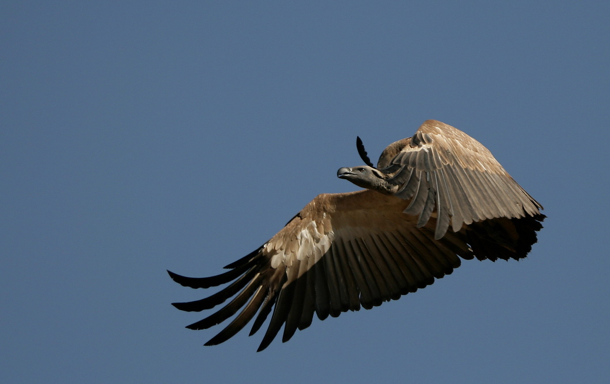 Cape Vulture (Gyps coprotheres) in flight at the Rhino and Lion Nature Reserve, Cradle of Humankind, Gauteng, South Africa